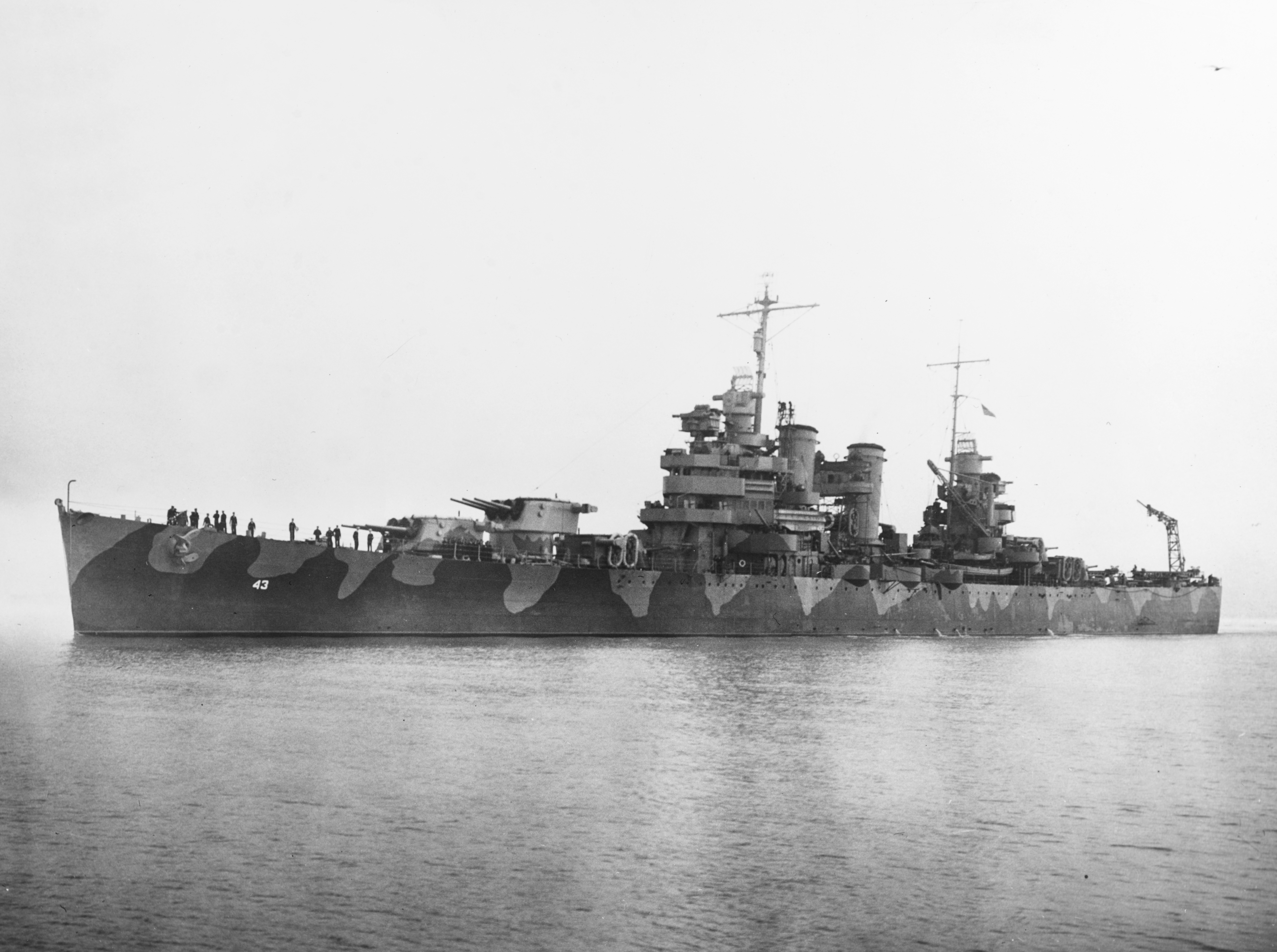 The U.S. Navy light cruiser USS Nashville (CL-43) off the Mare Island Naval Shipyard, California (USA), on 1 April 1942. She is wearing Measure 12 (Modified) camouflage. Photograph from the Bureau of Ships Collection in the U.S. National Archives.